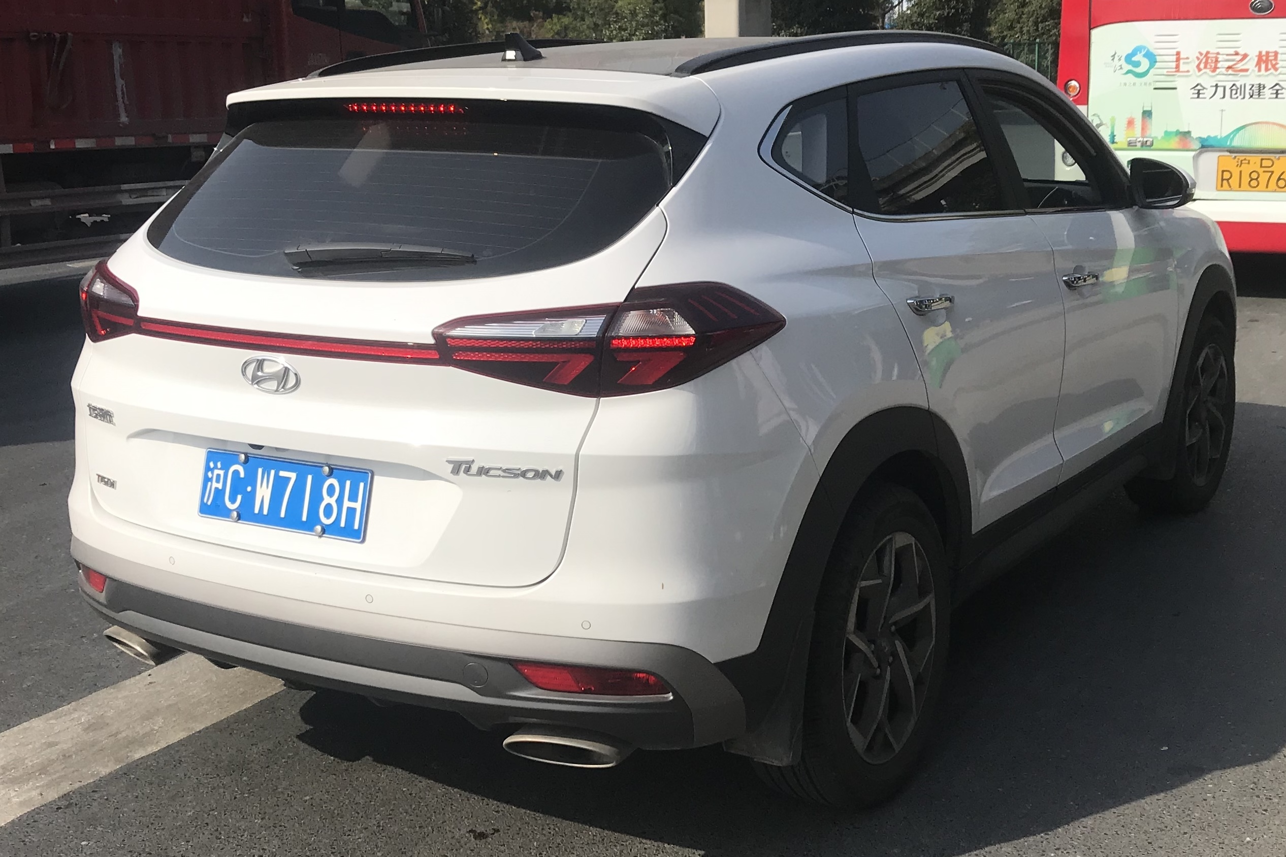 Hyundai Tucson (TL) Chinese facelift rear